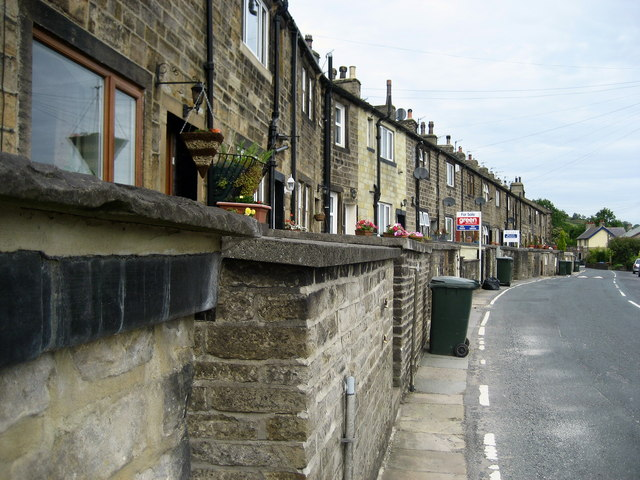 Aire View Terraced housing on Cross Hills Road, Cononley.